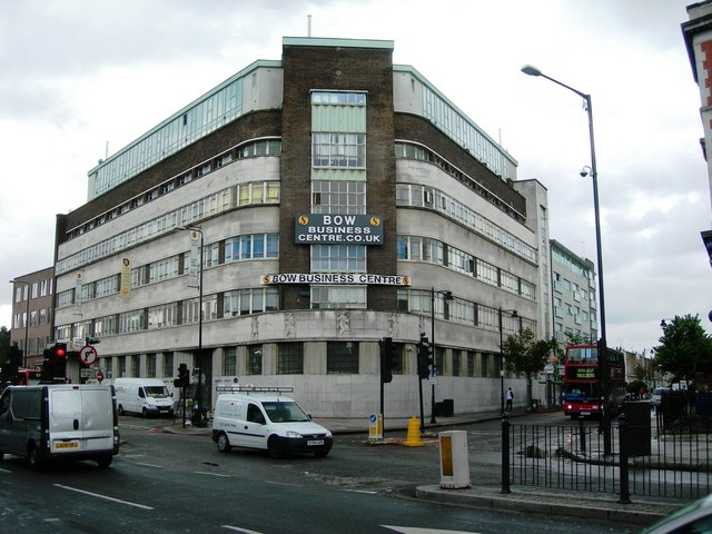 Bow Business Centre, Bow Road A Business Centre on the corner of Fairfield Road and Bow Road. Here is their website Click here for a 1965 photo